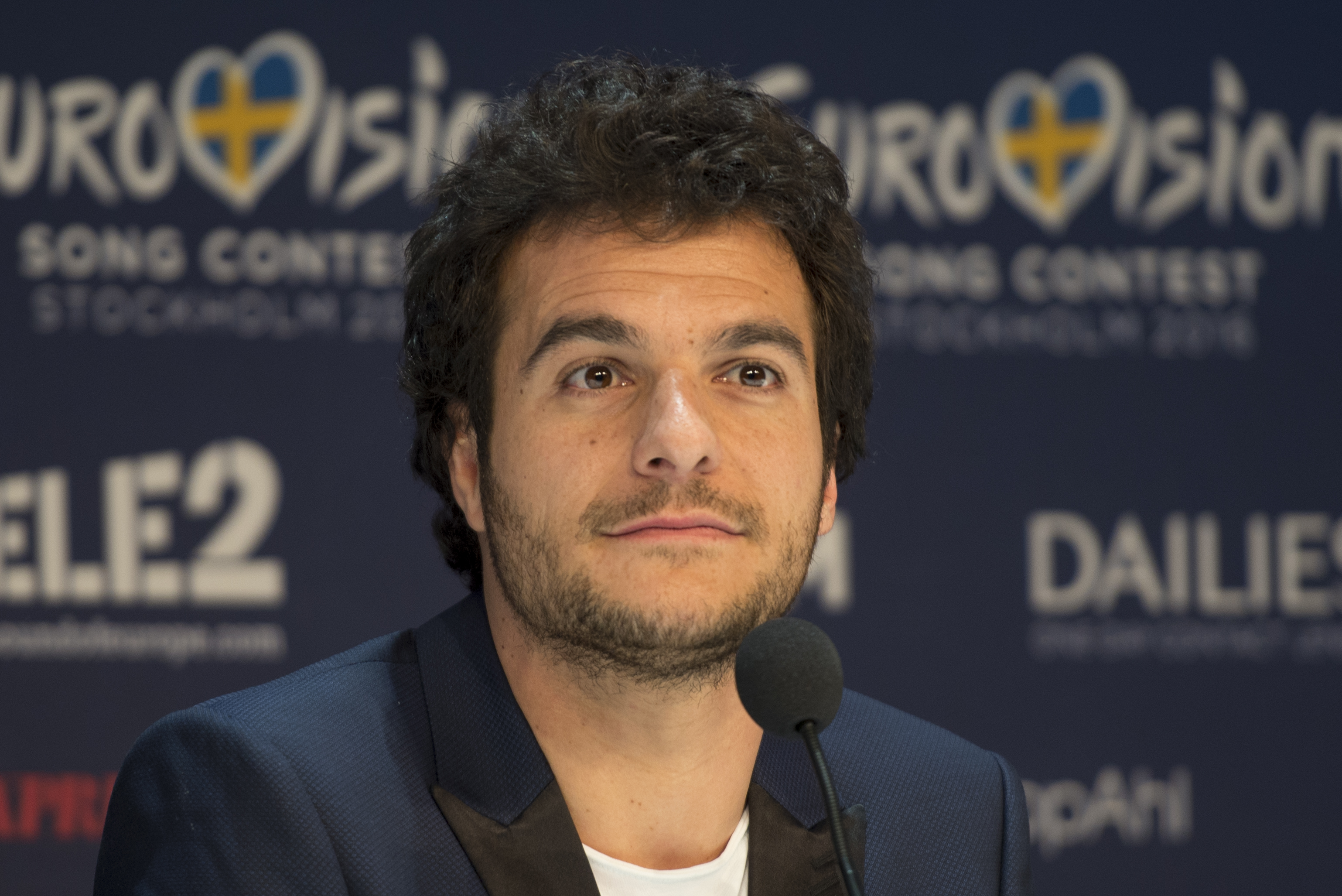 Amir at a Meet & Greet during the Eurovision Song Contest 2016 in Stockholm. (Help translate this text)